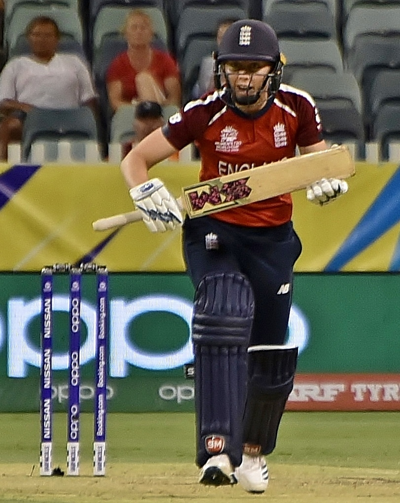 Heather Knight batting for England against South Africa during their 2020 ICC Women's T20 World Cup match at the WACA Ground in Perth, Australia